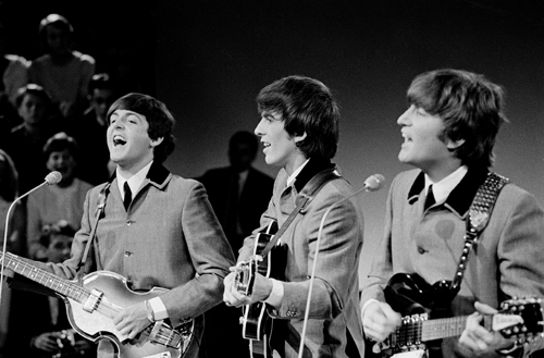 Paul McCartney, George Harrison and John Lennon during a Beatles performance for Dutch television